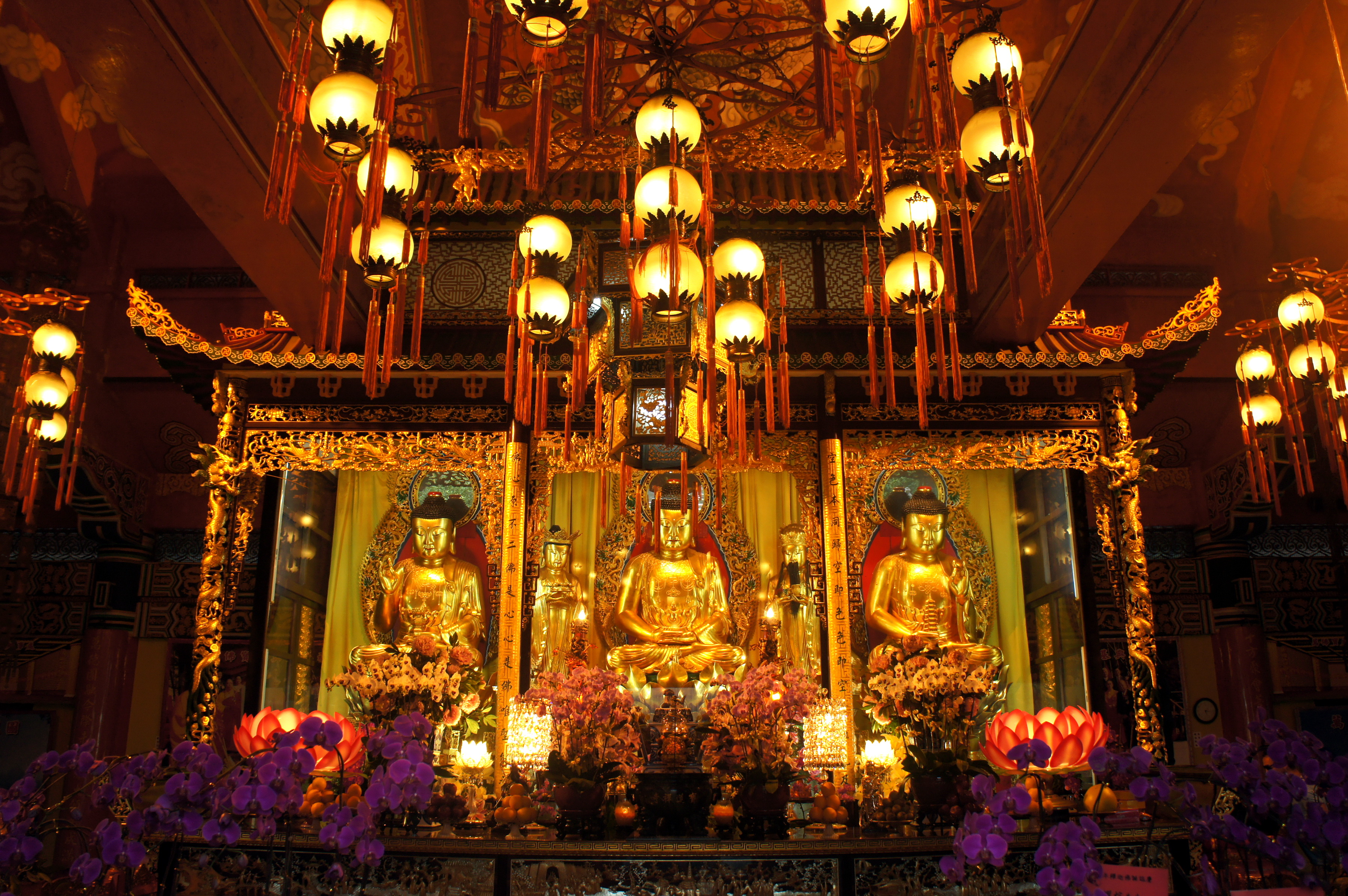 The interior of the Main Shrine, Po Lin Monastery, Lantau Island, Hong Kong.